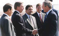 Doug Ose with in California with other local Representatives and President Bush.